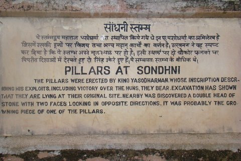 Info by Archaeology Department of India about Victory tower of Yashodharman at Sondani in Mandsaur district, Madhya Pradesh, India